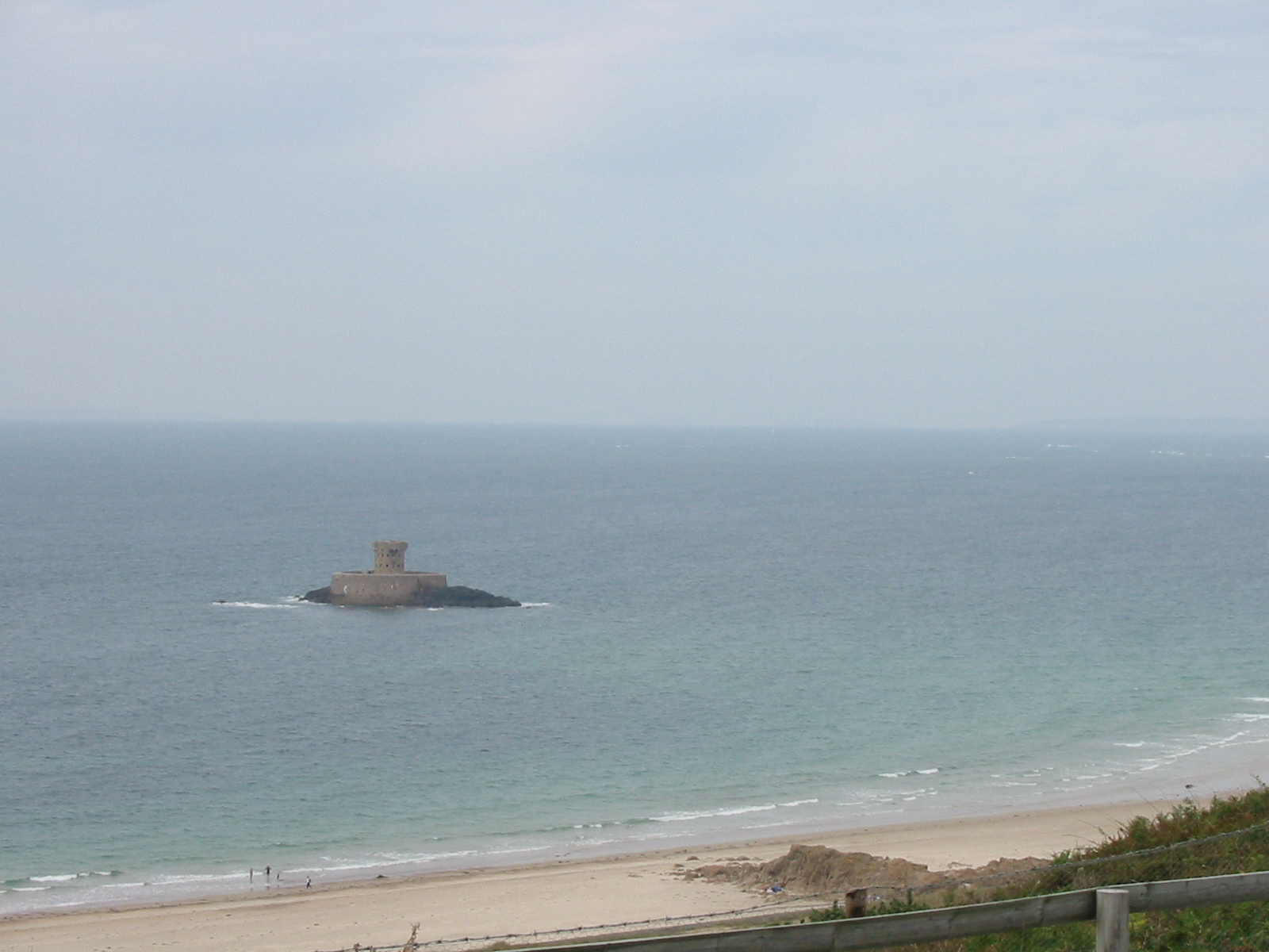 La Rocco Tower in St. Ouen's Bay, Jersey, at high tide